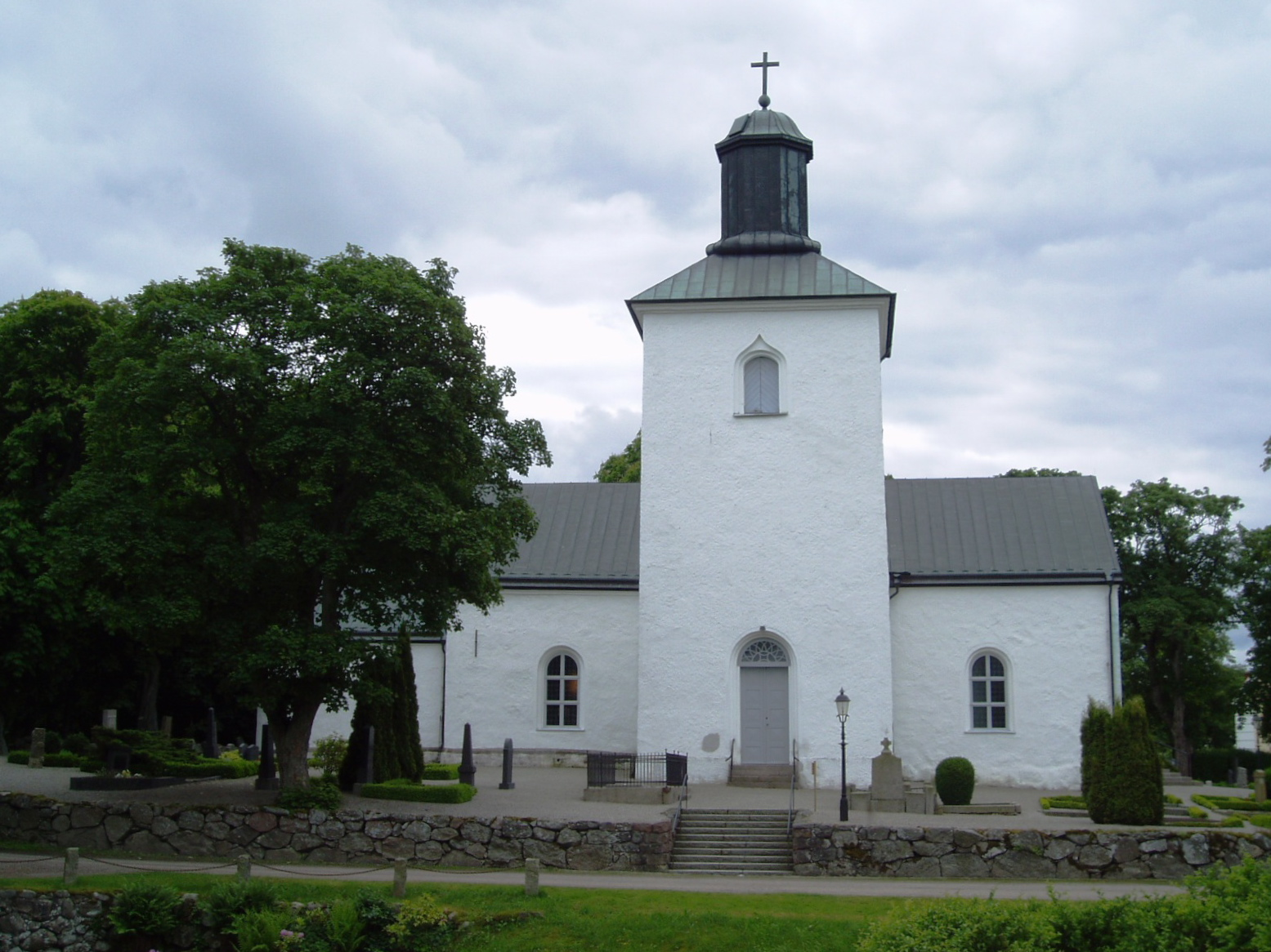 Church at Högseröd, Eslöv municipality, Scania, Sweden